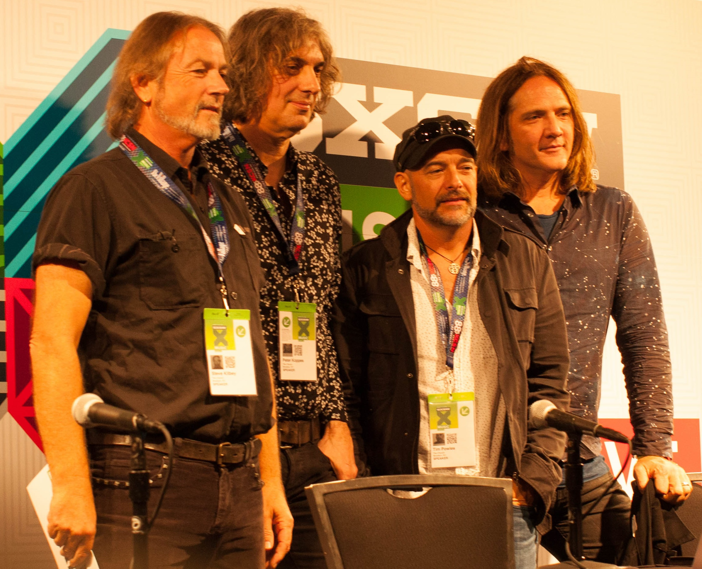 The Church at SXSW in 2015